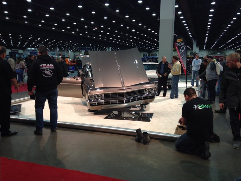 Builder Chip Foose stands by his latest "Great 8" contender "Imposter" during the 63rd Annual Detroit Autorama in March 2015.